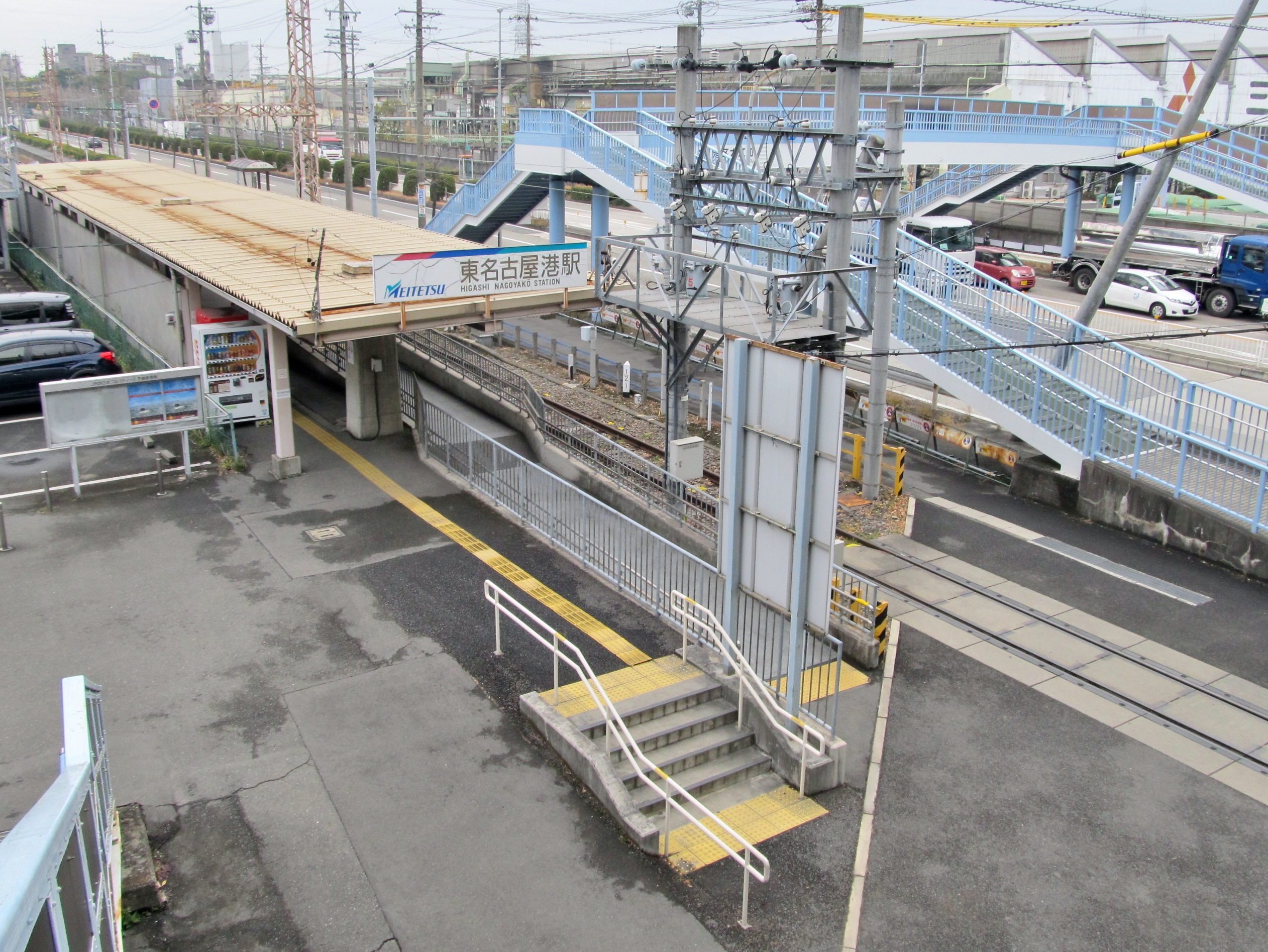 Nagoya Railroad Chikkō Line Higashi Nagoyakō Station Gate